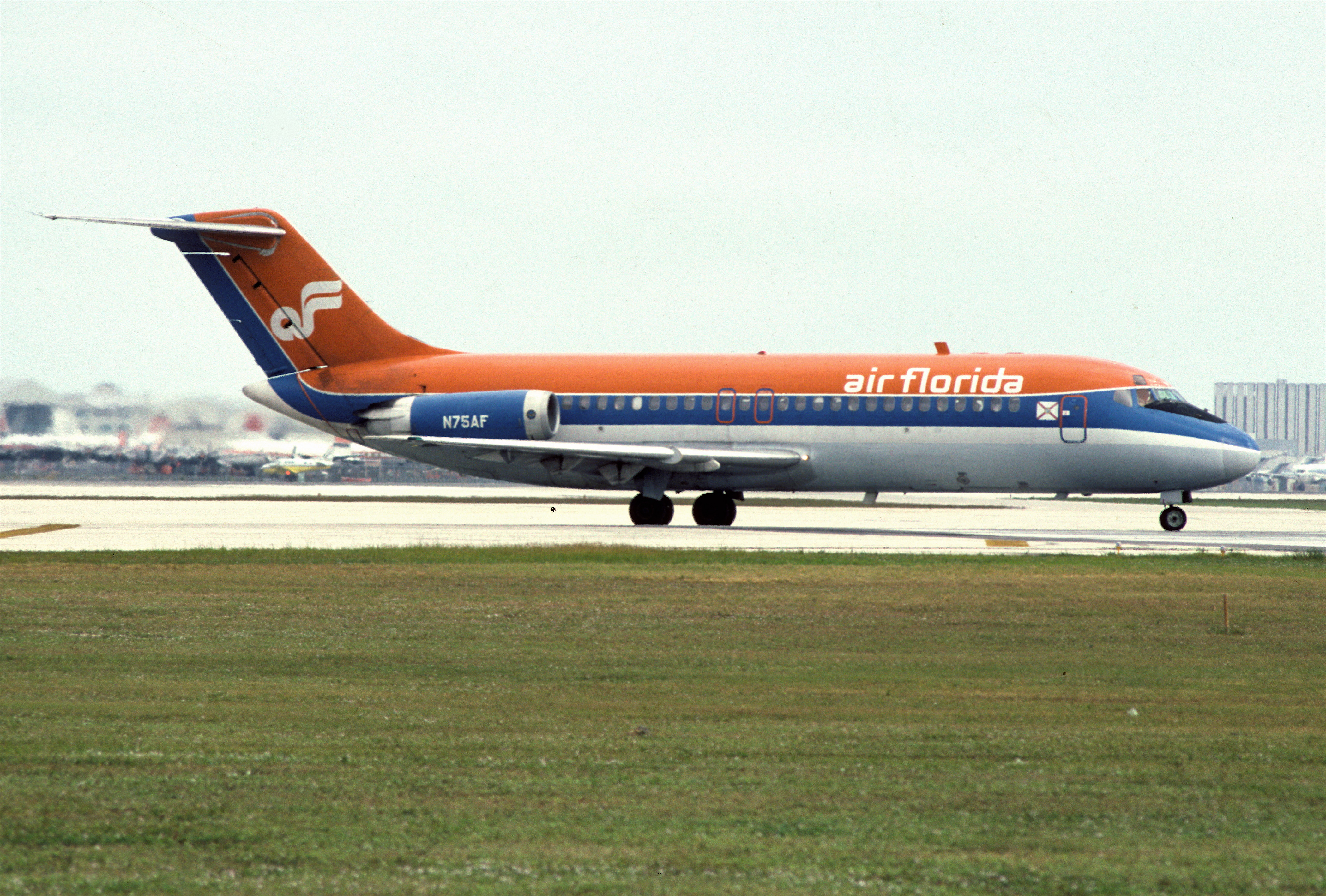 Air Florida DC-9-15RC; N75AF, December 1980/ CDX